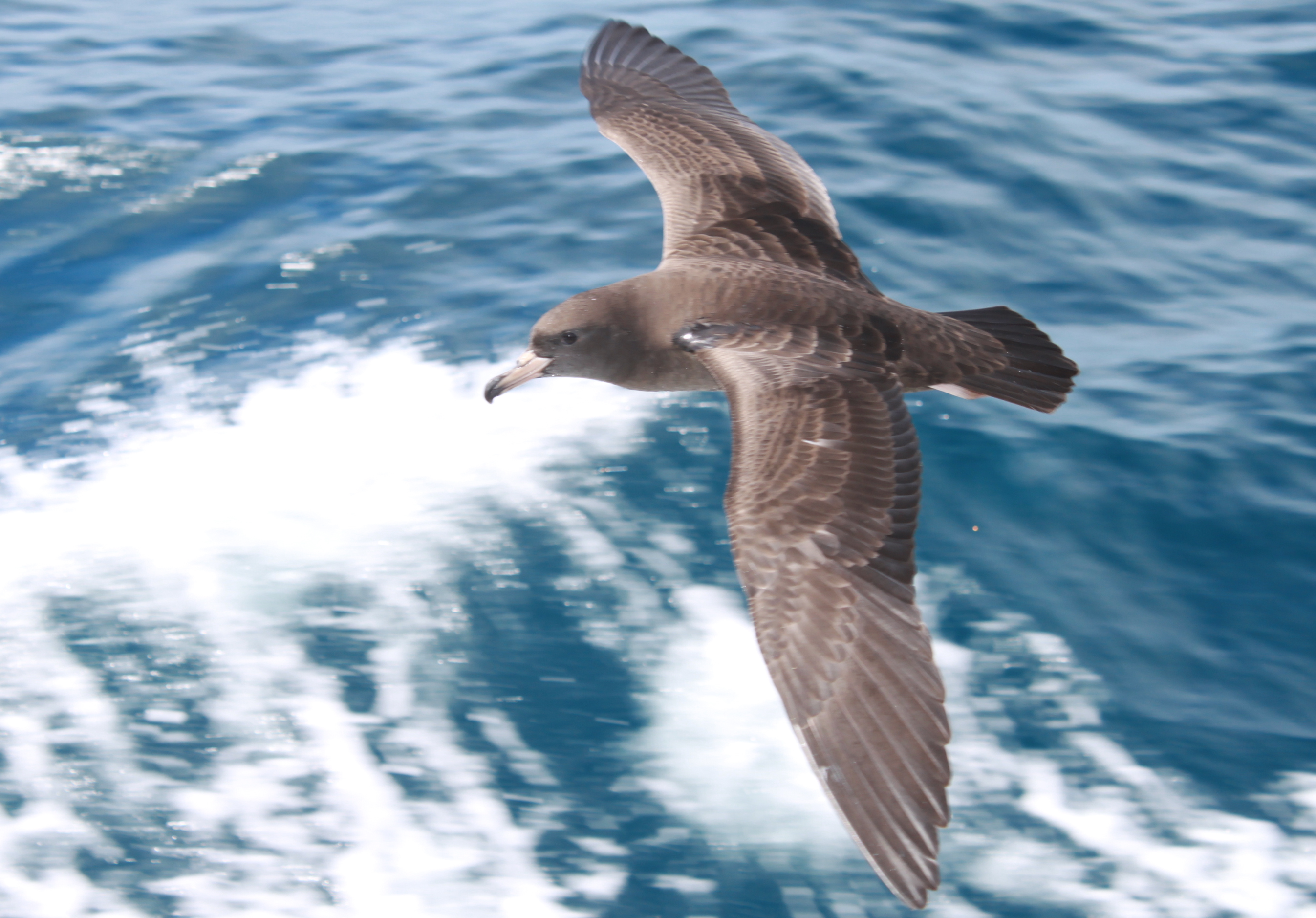 Flesh-footed Shearwater flying in New Zealand.